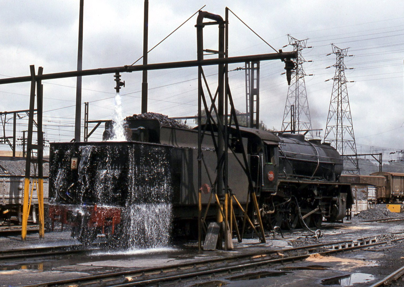 SAR Class S1 shunting loco No.380 with a full tender at Kaserne 190383.